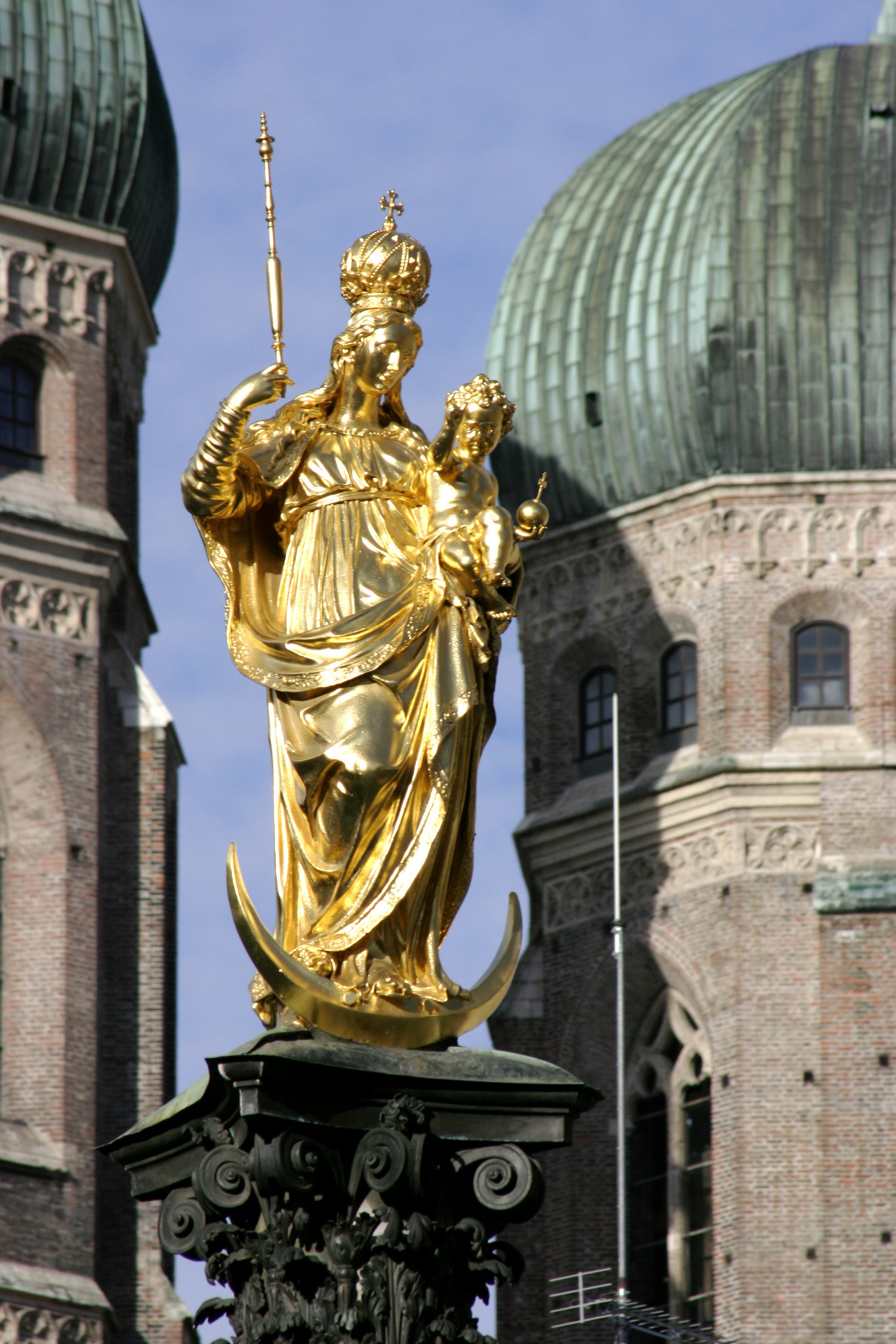 Munich – Maria column in the Marienplatz